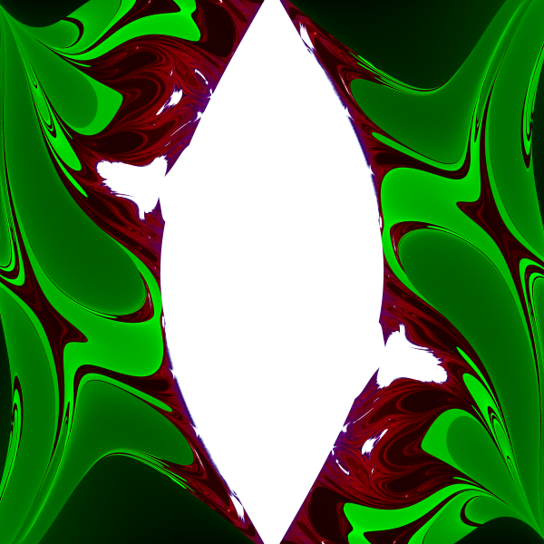 The colour of each pixel indicates whether either pendulum of a double pendulum flips within 10 l / g {\displaystyle {\sqrt {l/g } (green), within 100 (red), 1000 (purple) or 10000 (blue). Those that don't flip within 10000 l / g {\displaystyle {\sqrt {l/g } are plotted white. The angle that the upper pendulum makes with the vertical initially ranges from -3 at the left-hand side of the plot to +3 at the right-hand side. The angle that the lower pendulum initial makes with the vertical ranges from -3 at the top to +3 at the bottom. [clarification needed]